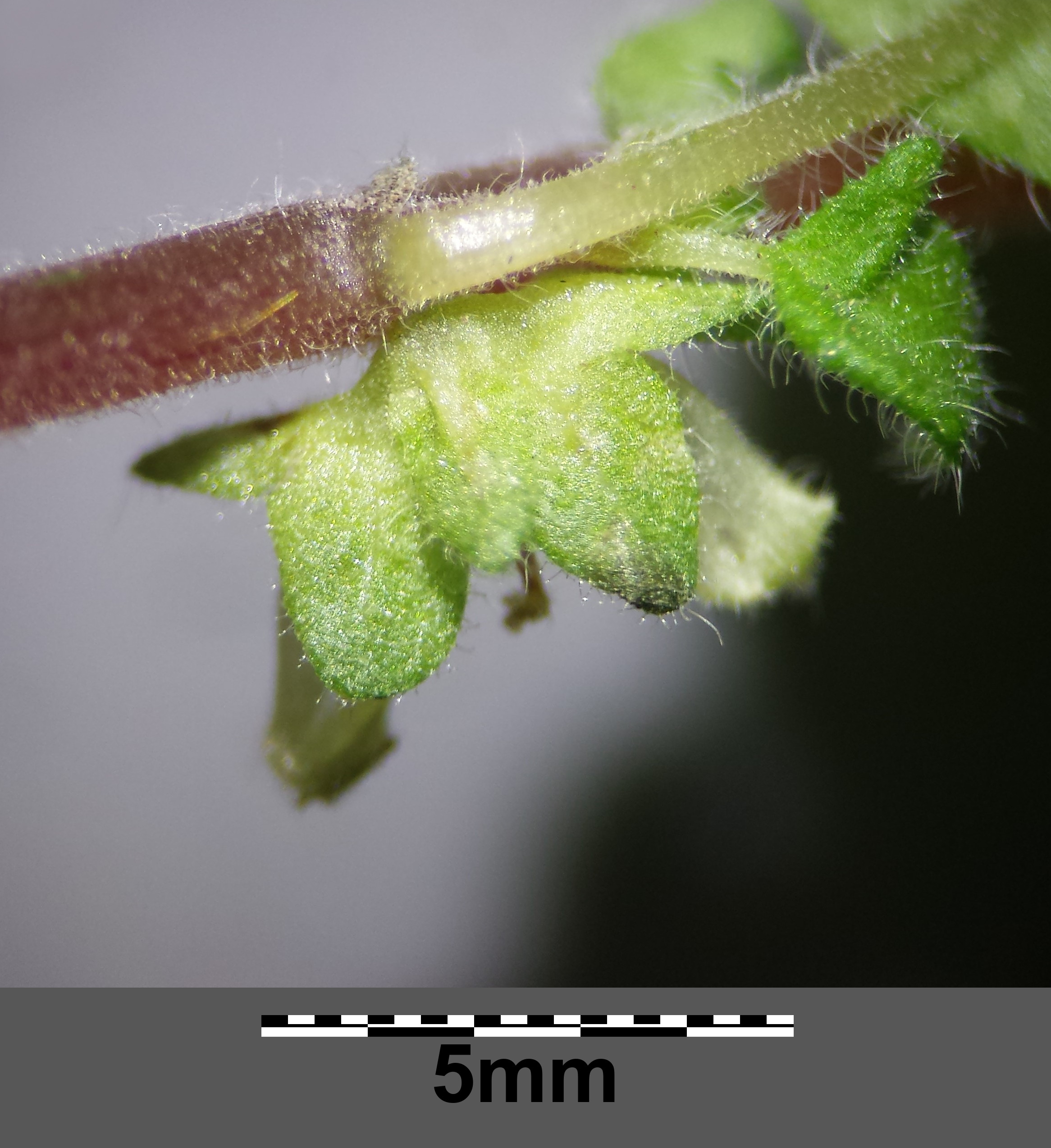 Inflorescence, bracts shortly connate at base Taxonym: Parietaria judaica ss Fischer et al. EfÖLS 2008 ISBN 978-3-85474-187-9 Location: Italienerschleife at Martha-Steffy-Browne-Gasse, Vienna-Floridsdorf - ca. 160 m a.s.l. Habitat: ruderal area under/next to railroad viaduct